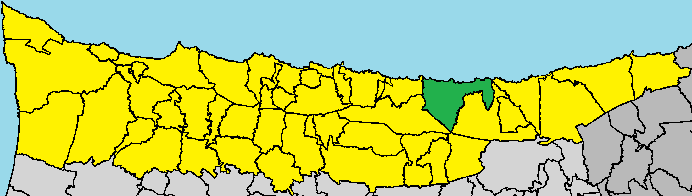 Agios Epiktitos Keryneias in Kyrenia District (de jure).